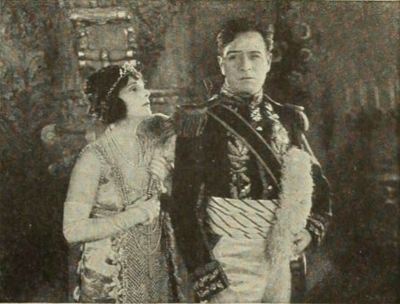 Still from the American film The Eternal Flame (1922) with Norma Talmadge and Conway Tearle, page 59 of the October 1922 Photoplay.